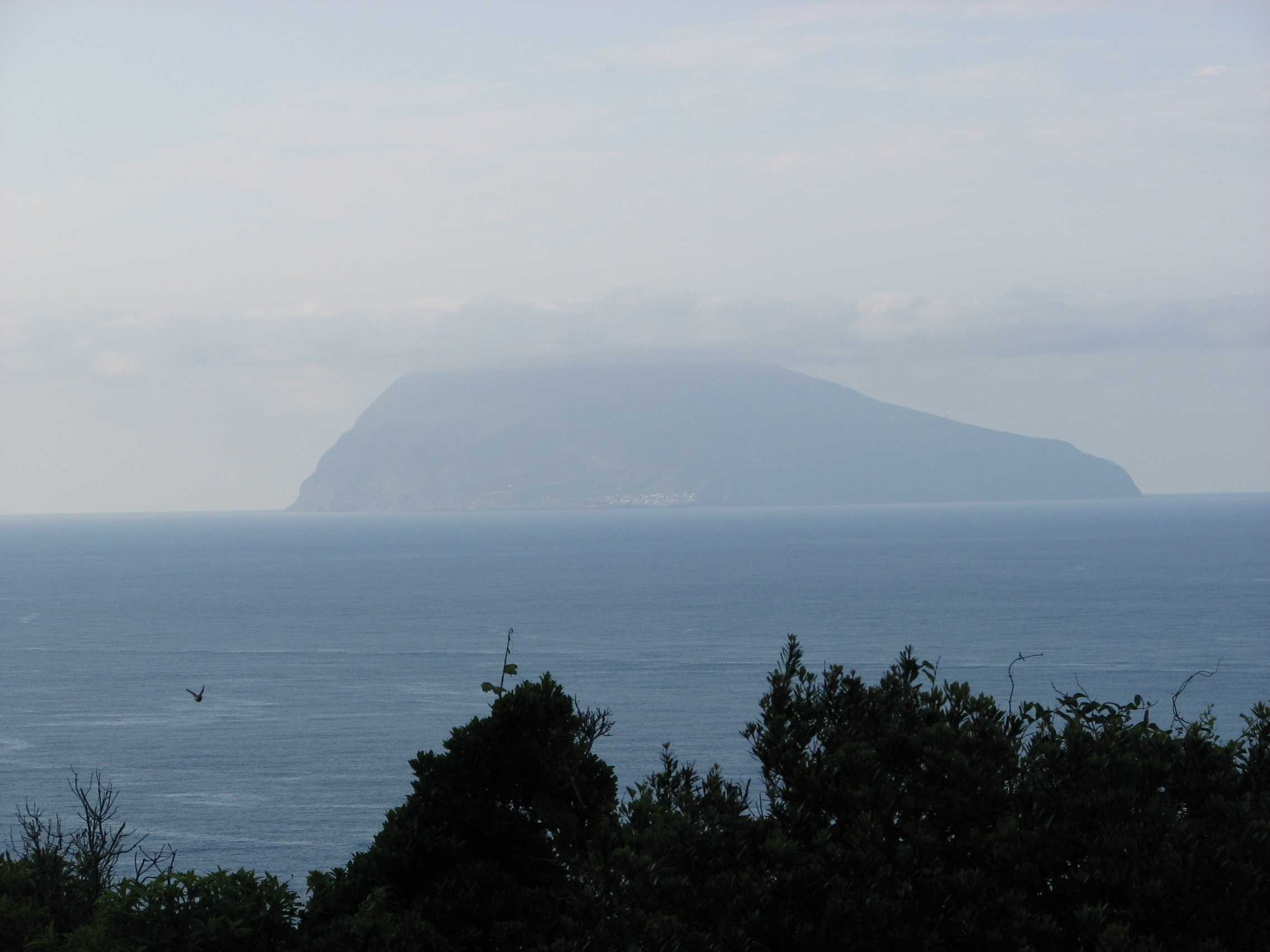 The island of Corvo seen from the northeastern coast of Flores, Azores.